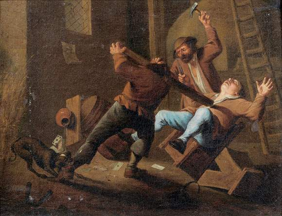 Height: 33 cm (12.9 ″); Width: 41 cm (16.1 ″) dimensions QS:P2048,33U174728;P2049,41U174728